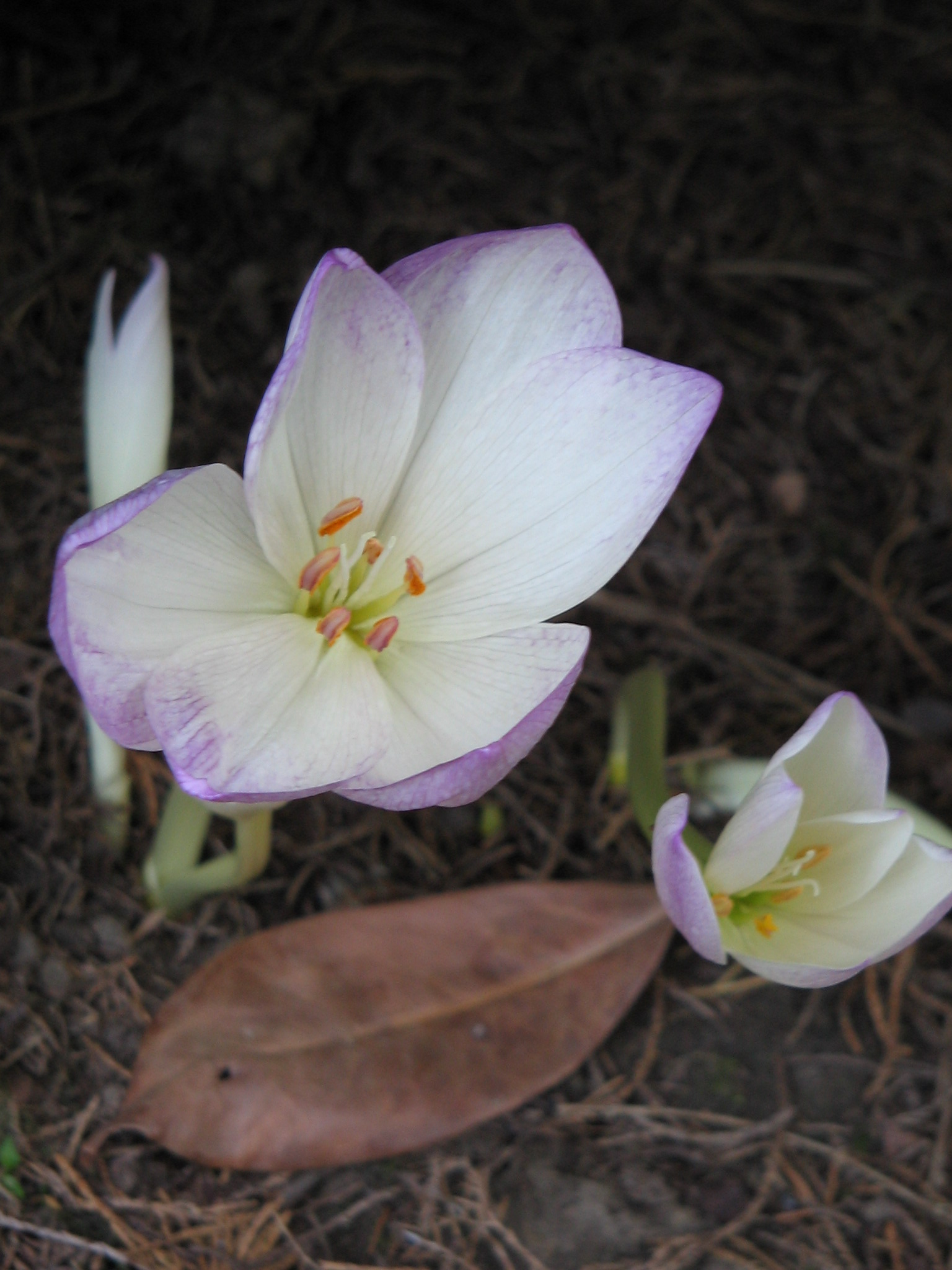 Colchicum bornmuelleri - flower